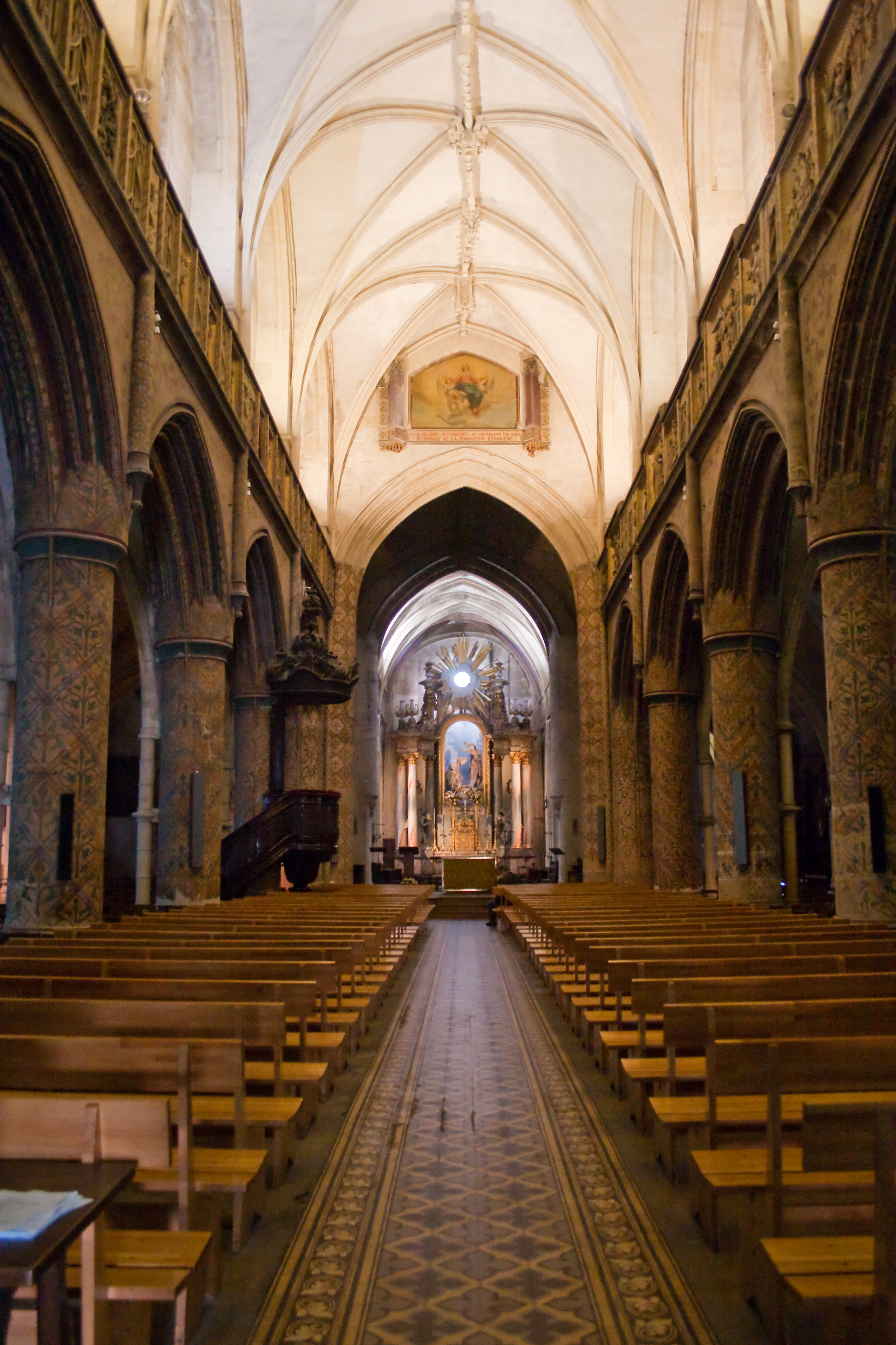 Nave of Basilique Sainte-Trinité de Cherbourg, looking east.